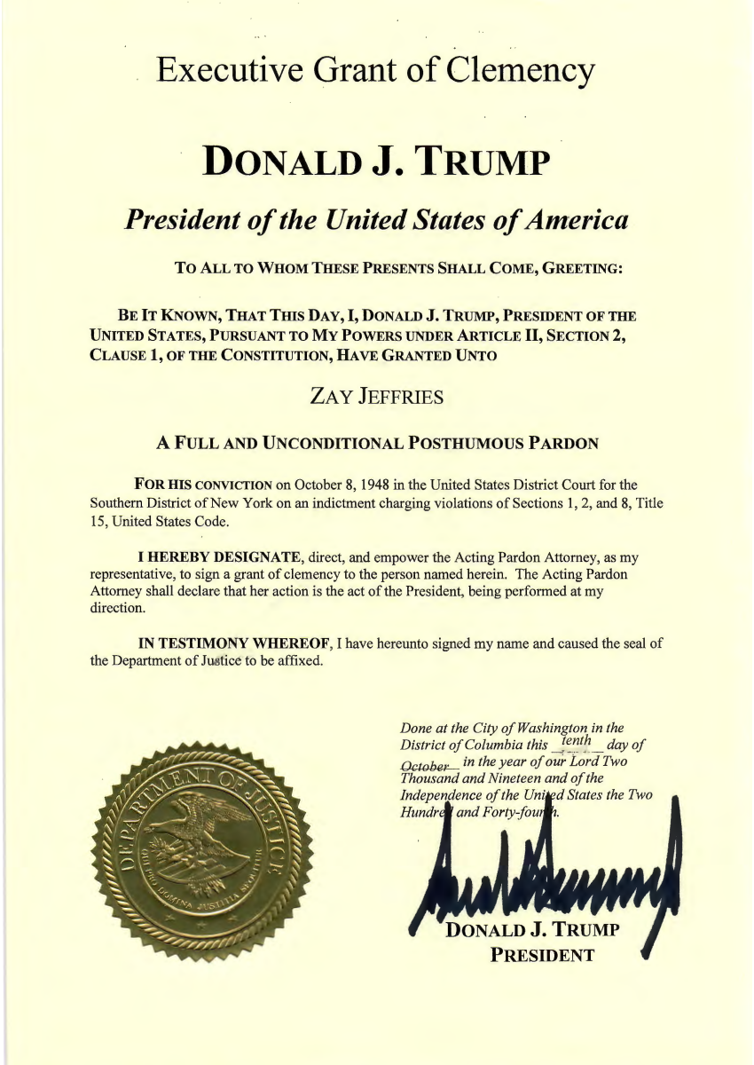 Posthumous pardon of Zay Jeffries for violations of Title 15 of the United States Code, done on 10 October 2019, by President Donald Trump.Cropped from original pdf format.